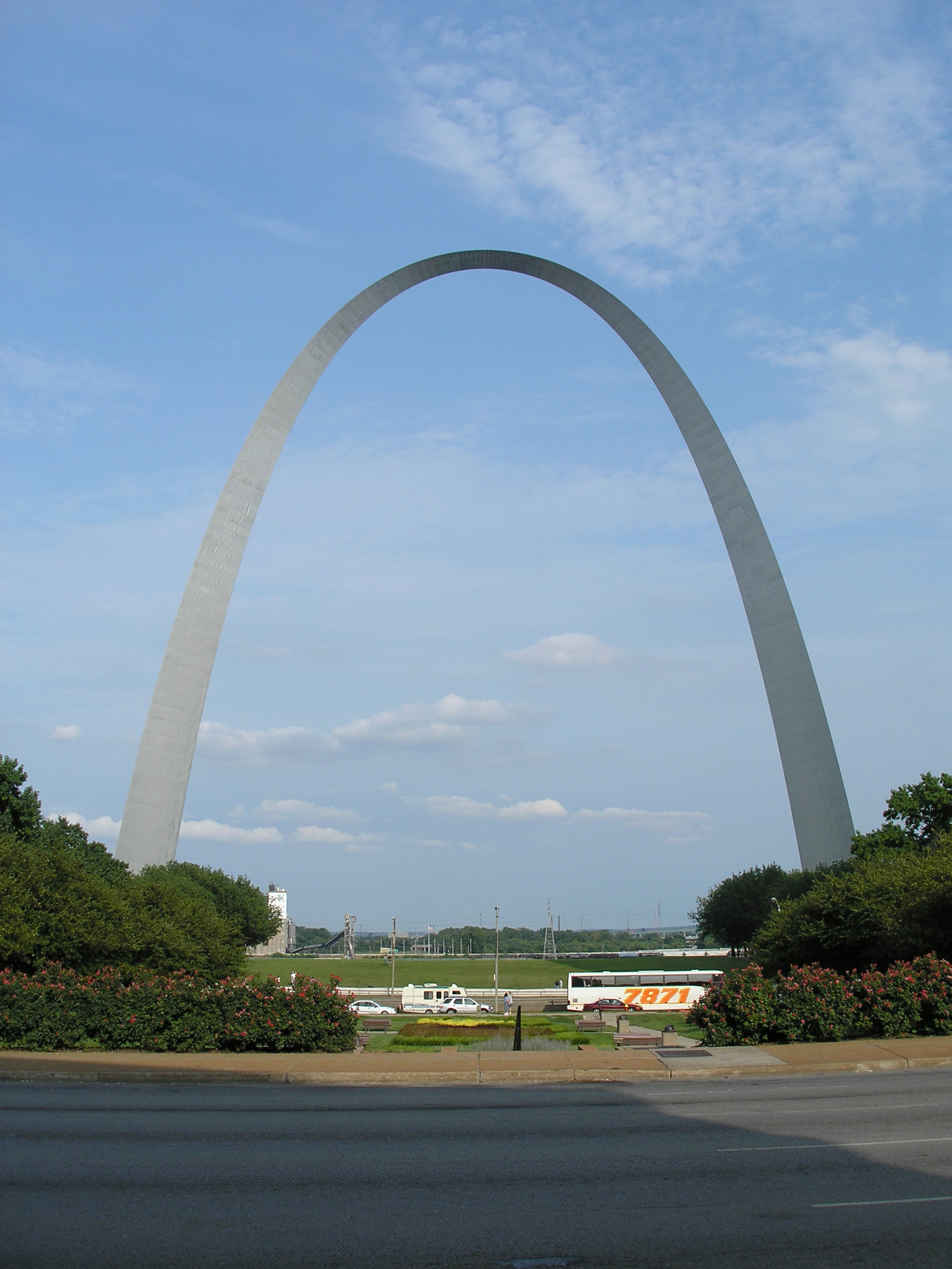 Gateway Arch, St. Louis, Missouri (looking east). Photographer: David K. Staub